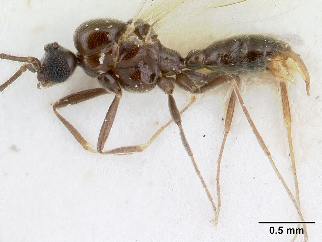 Profile view of ant Yavnella argamani specimen casent0178519.